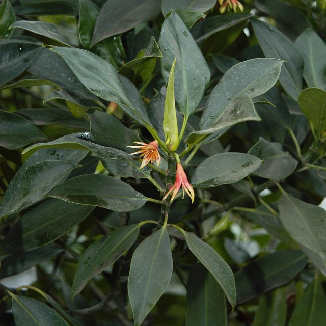 Flowers of Bruguiera gymnorrhiza, Royal Botanical Gardens, Kew, London, UK